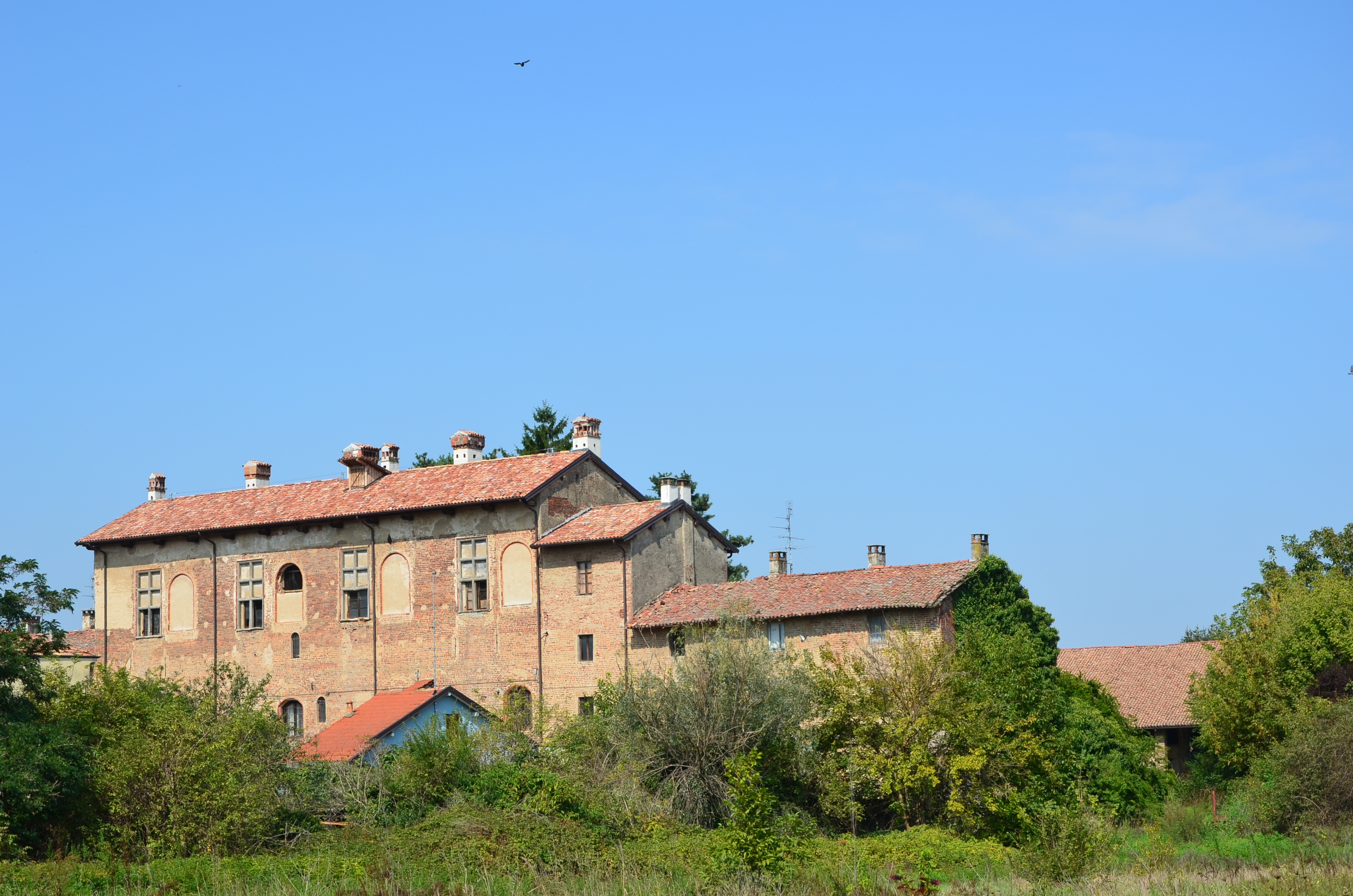 This is a photo of a monument which is part of cultural heritage of Italy.